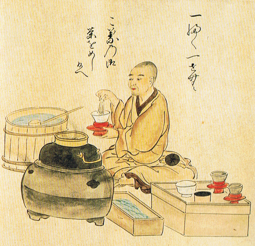 Poetry Competition of Artisans, vol.2 from a set of three vols.